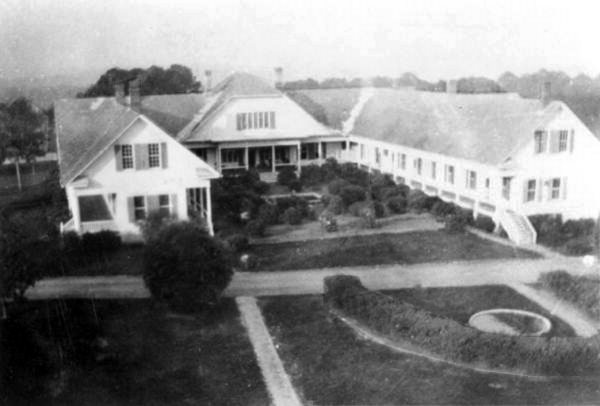 Local call number: Rc19240 Title: [Bird's eye view of Horseshoe Plantation : Leon County, Florida] [graphic] Publication info: 1927. Physical descrip: 1 photoprint b&w 8 x 10 in. Series Title: (Reference collection)